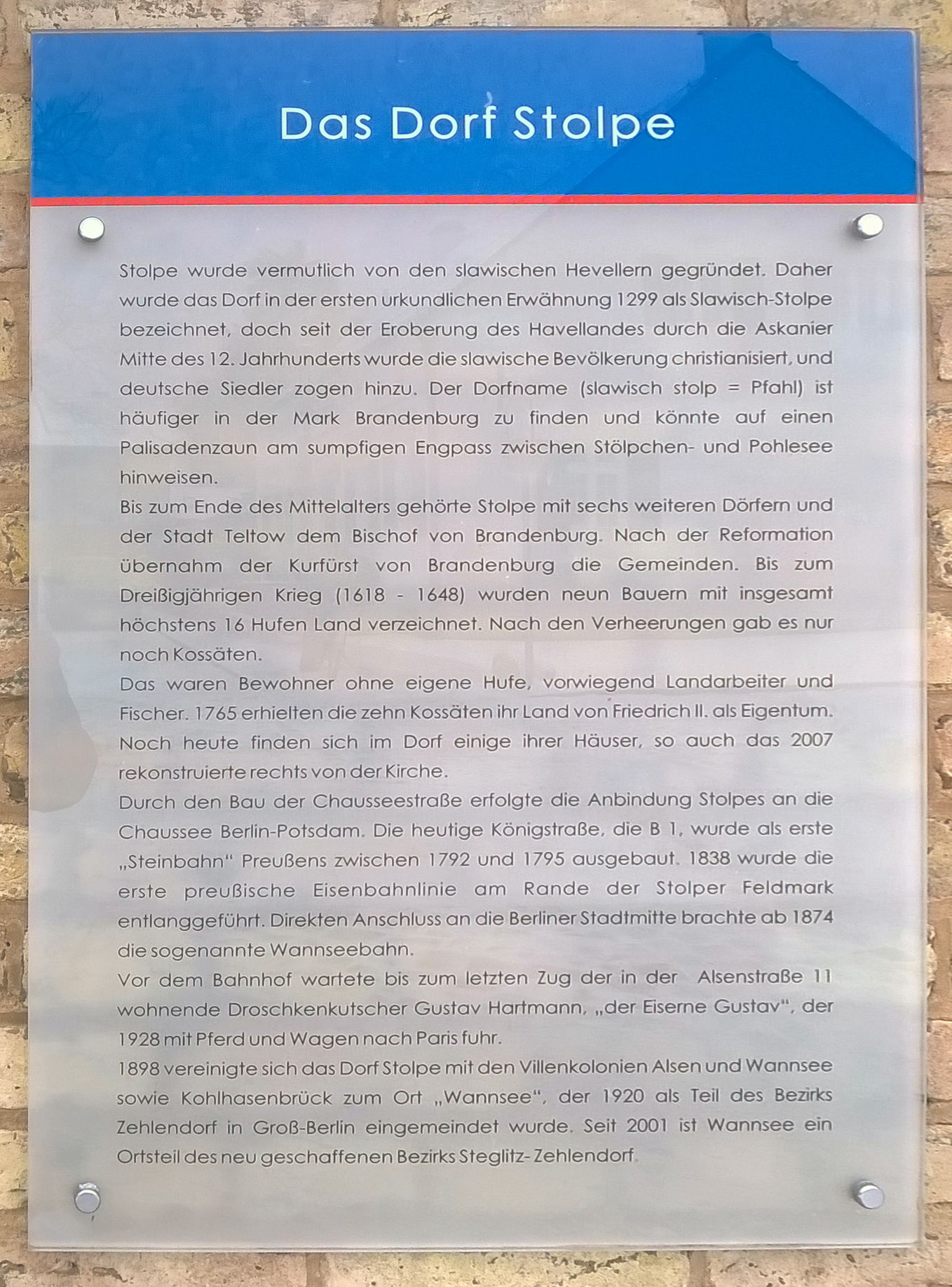 Memorial plaque, Dorf Stolpe, Wilhelmplatz 1, Berlin-Wannsee, Deutschland